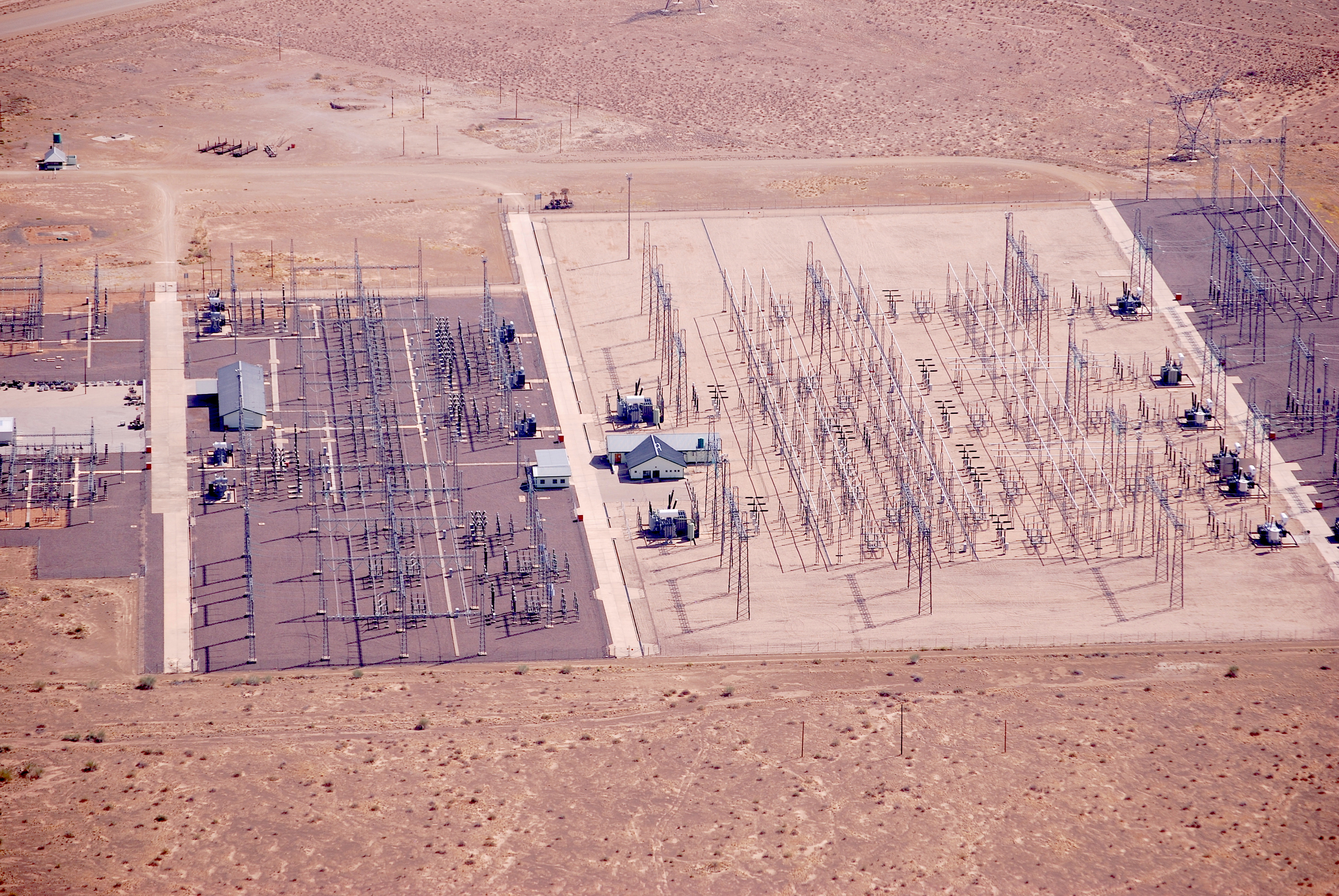 Kokerboom substation northeast of Keetmanshoop, Namibia